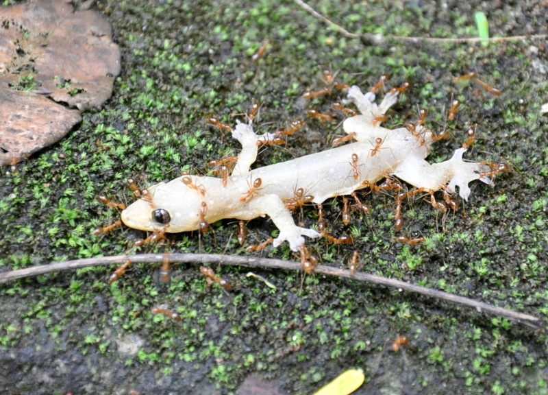 A dead lizard being dragged away by Yellow Crazy Ants